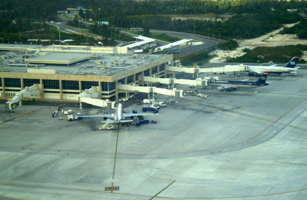 View of Cancun International Airport's terminal 3.